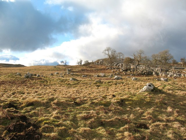 Field system at Old Pasture The upland limestone pastures between Grassington and Kettlewell must have been favoured as a settlement site by early man as there are numerous hut circles, field outlines and other features, most of which date back to the iron age. The humps and stones defining ancient enclosures can be seen here.